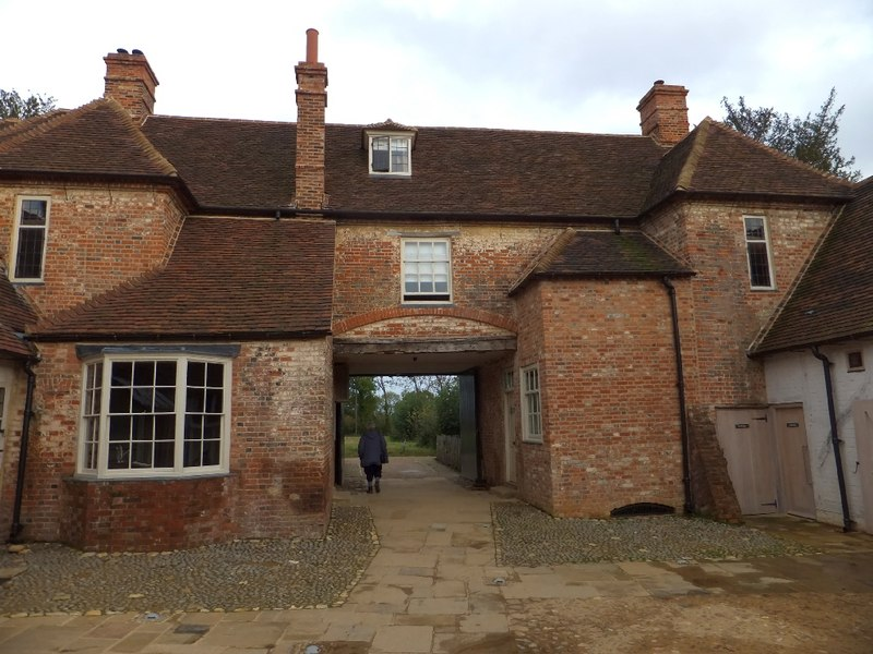 Courtyard of the New Inn at Stowe Park